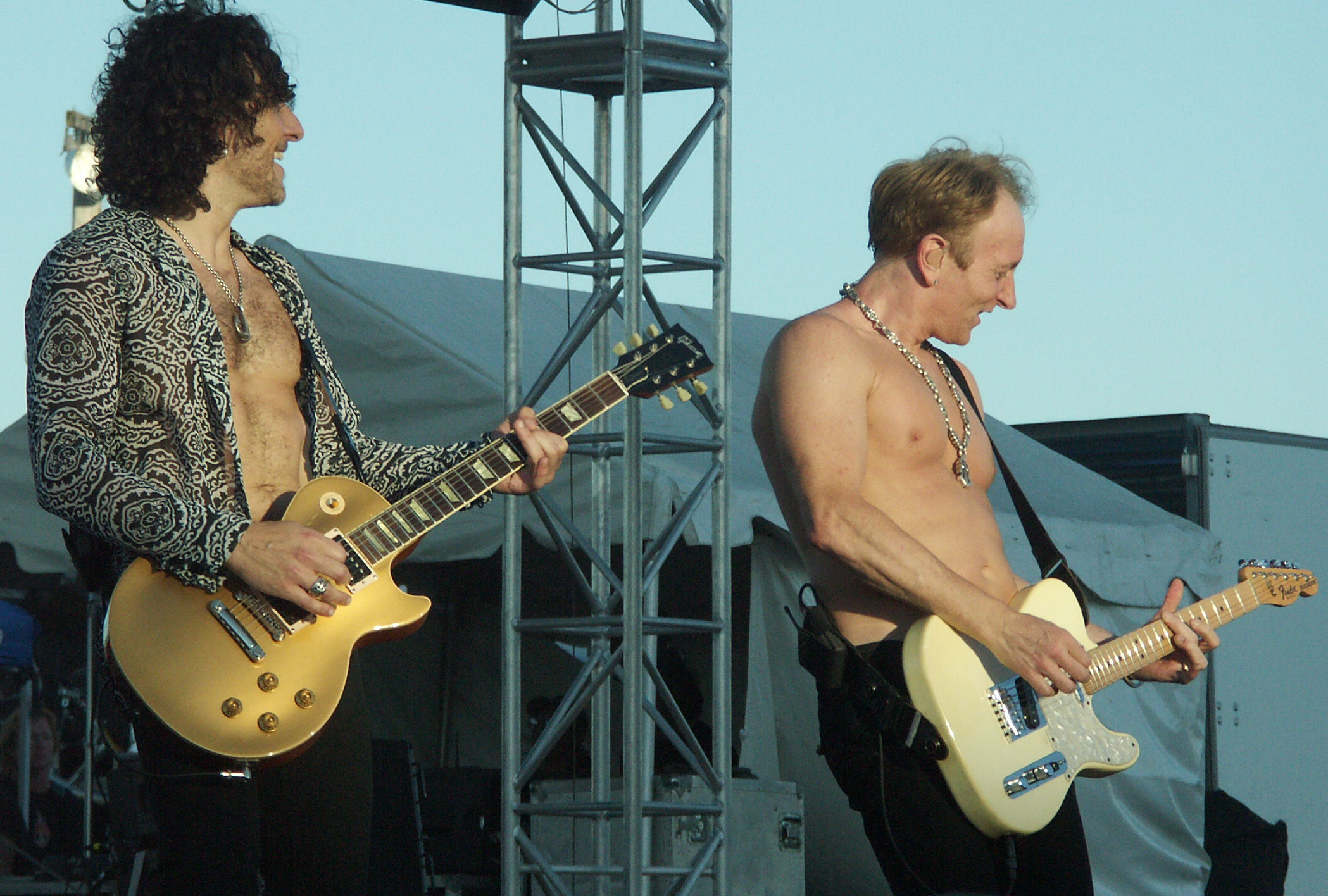 Taken by Weatherman90 at North Dakota State Fair Def Leppard Concert, 2007-07-26